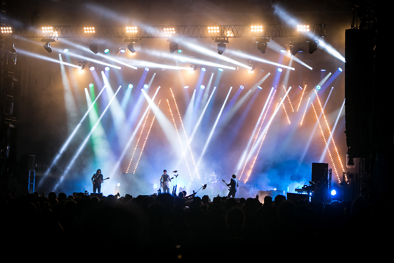 Arctic Monkeys in Zürich Open Air 2013